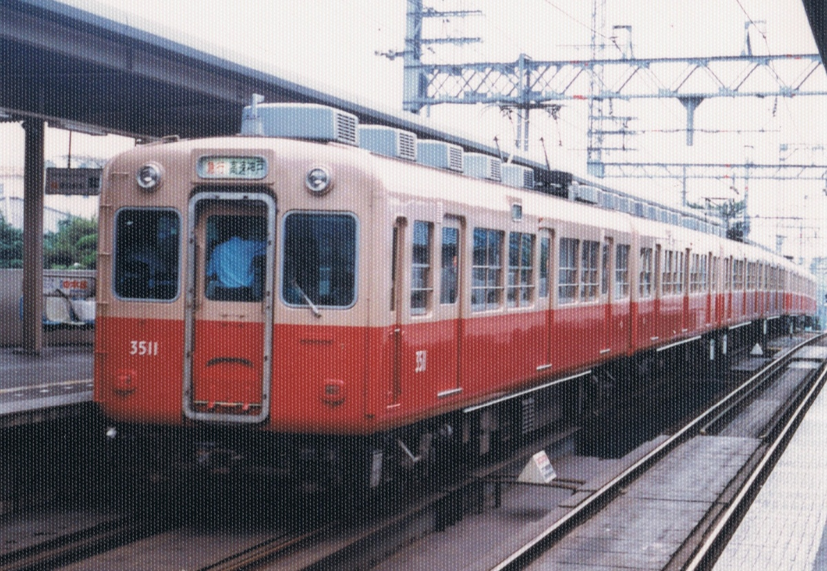 Hanshin railway 3511